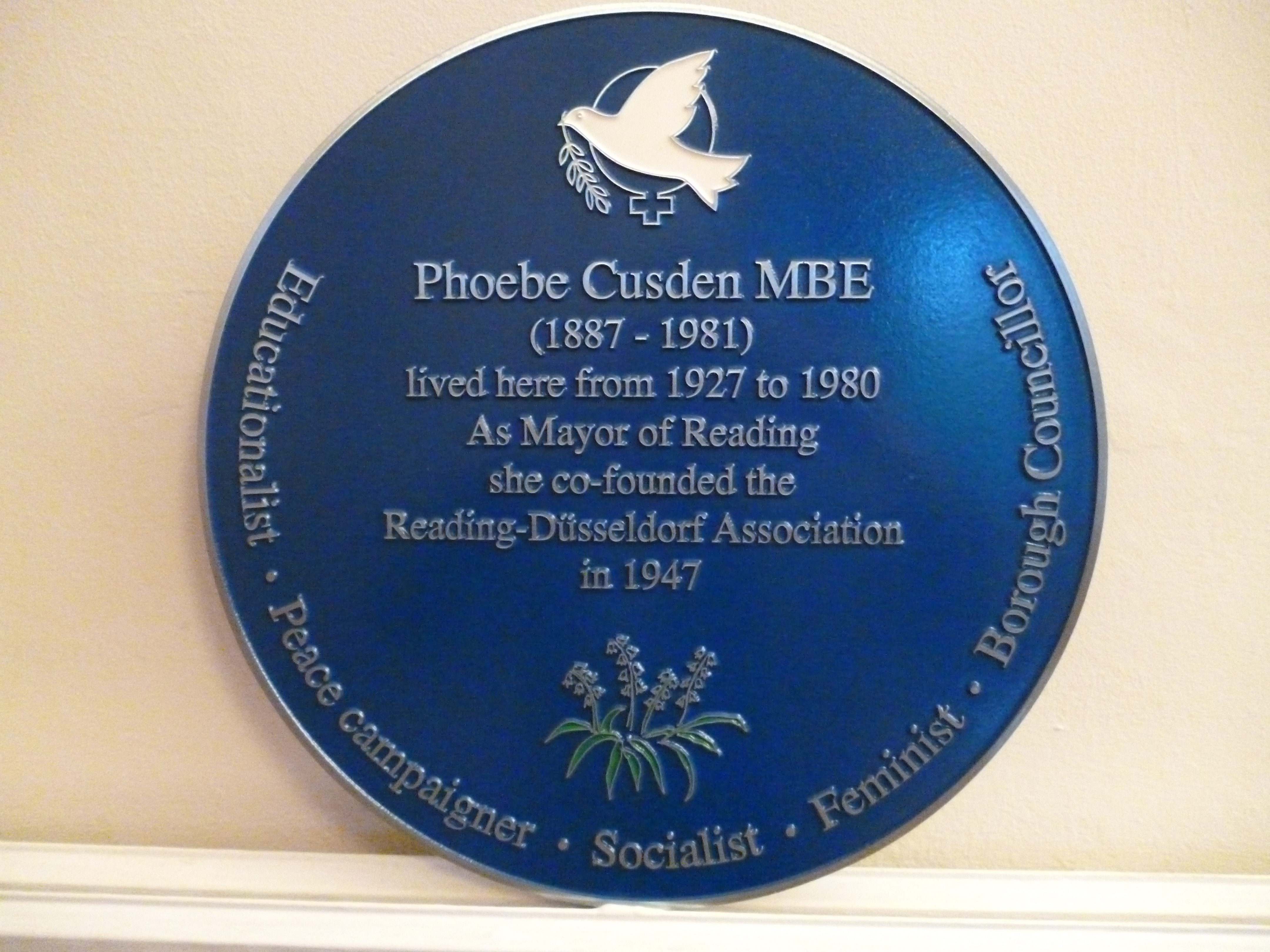 Blue plaque to commemorate life of Phoebe Cusden. Unveiled at her former home in Reading, 55 Castle st., 19 Nov 2017.